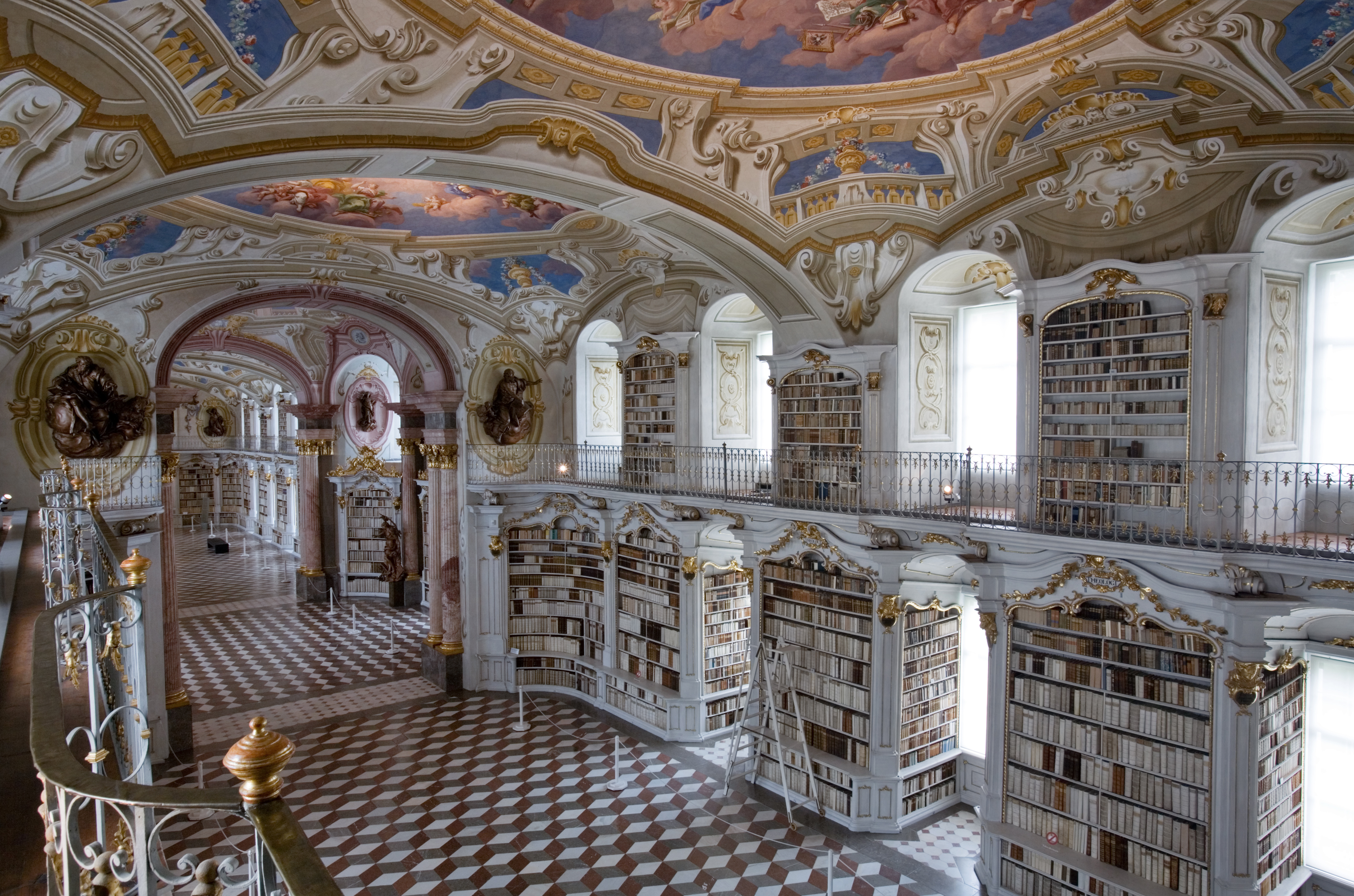 Admont Abbey Library, Austria